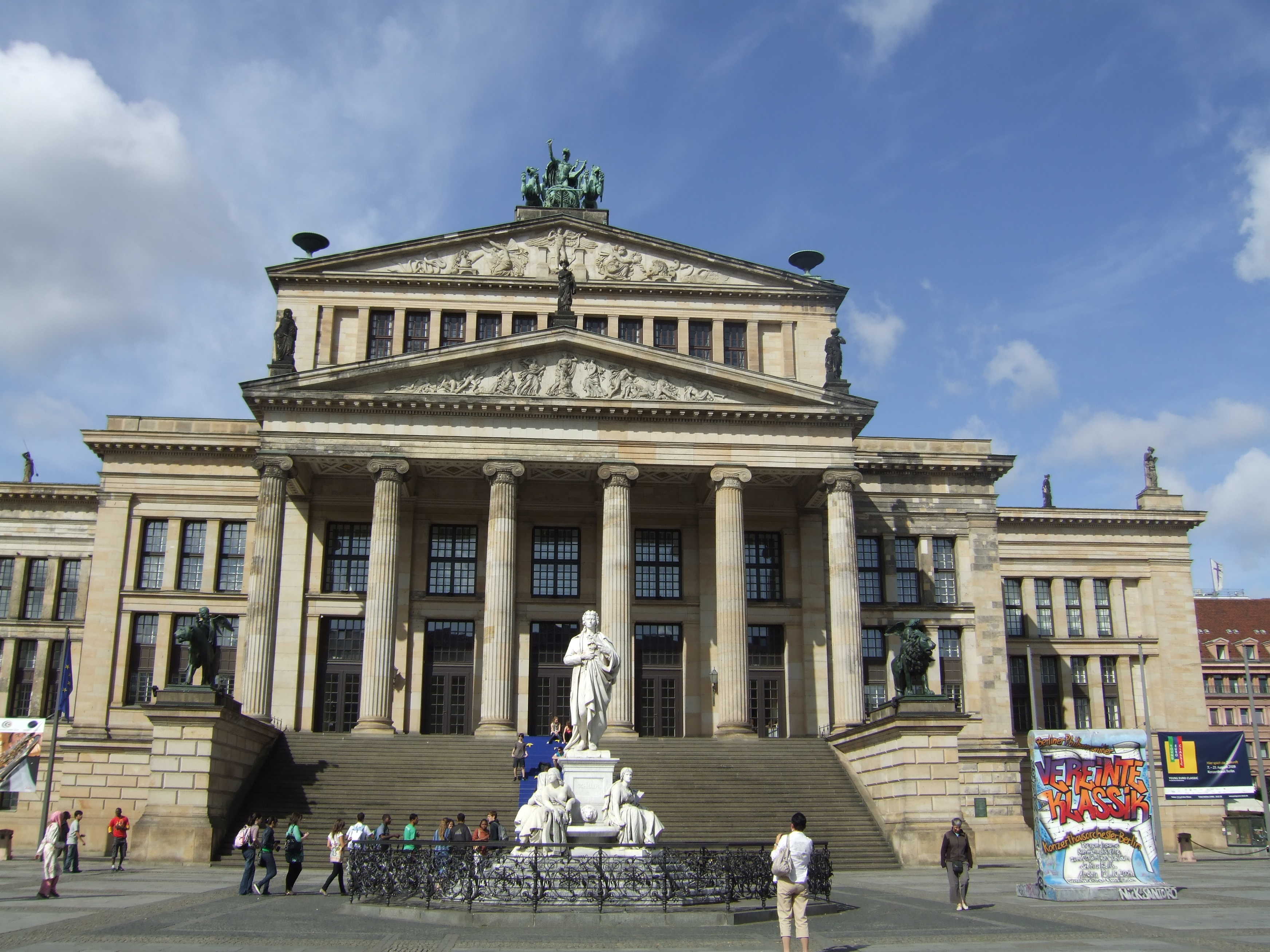 Concert Hall and F. Schiller's statue in Gendarmenmarkt (Berlin)